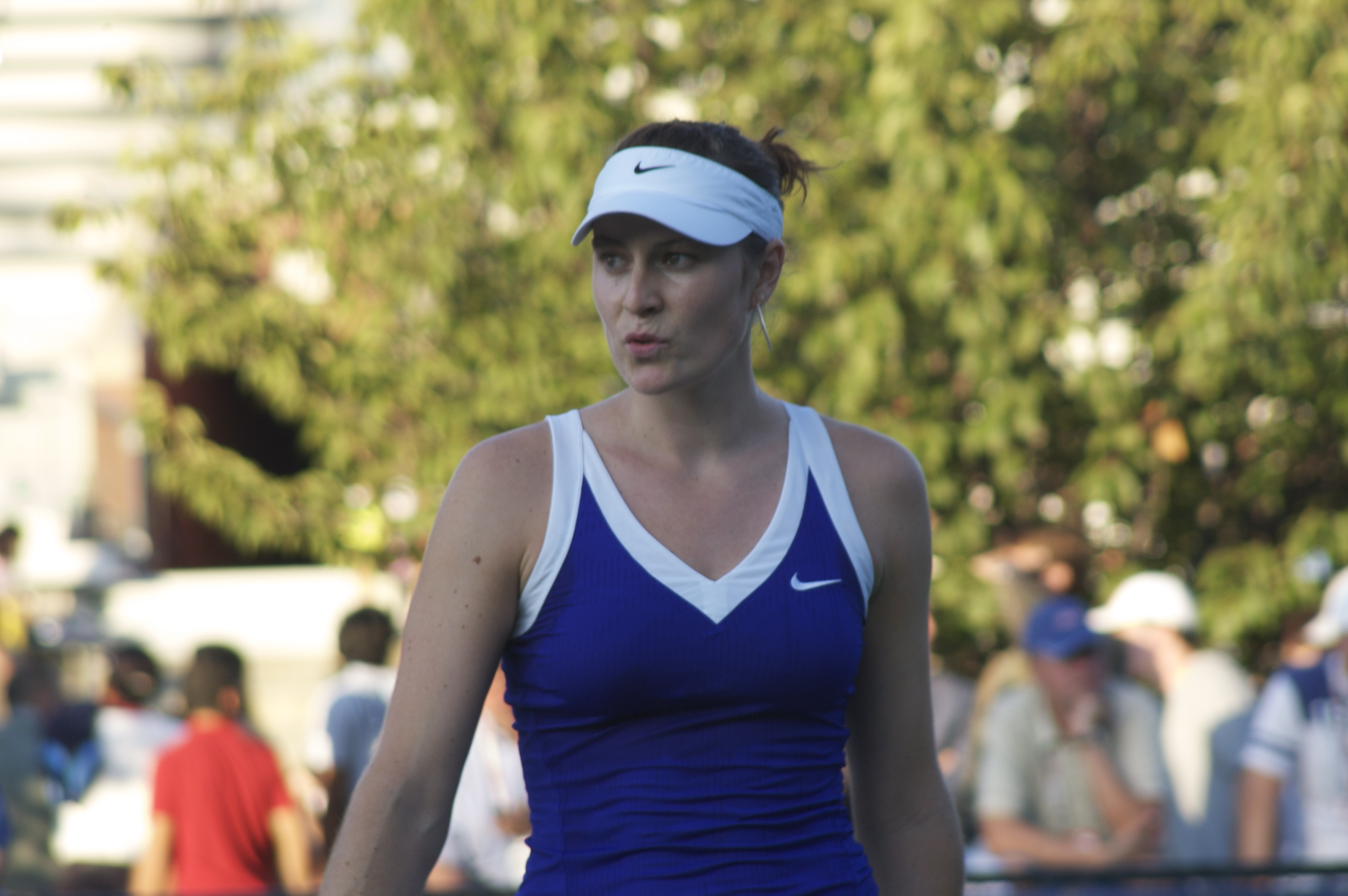 Julia Vakulenko at the 2008 U.S. Open - Women's Singles